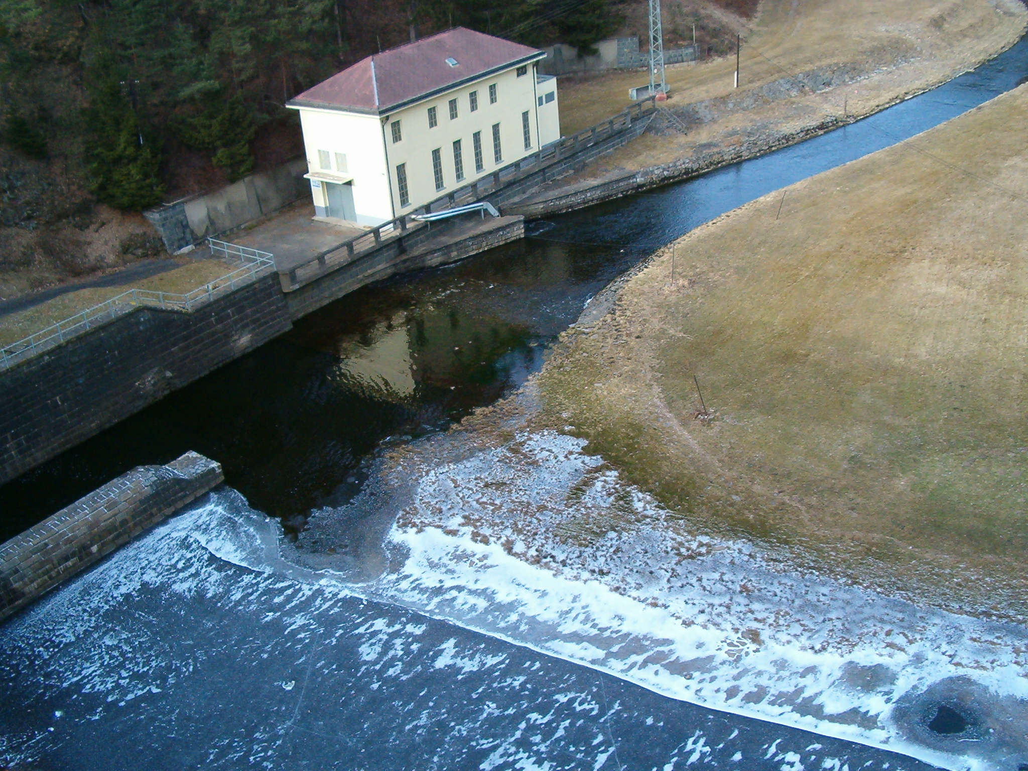 Husinec dam, Czech Republic